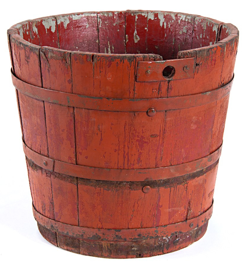 Maple sugaring bucket at the Minnesota Historical Society